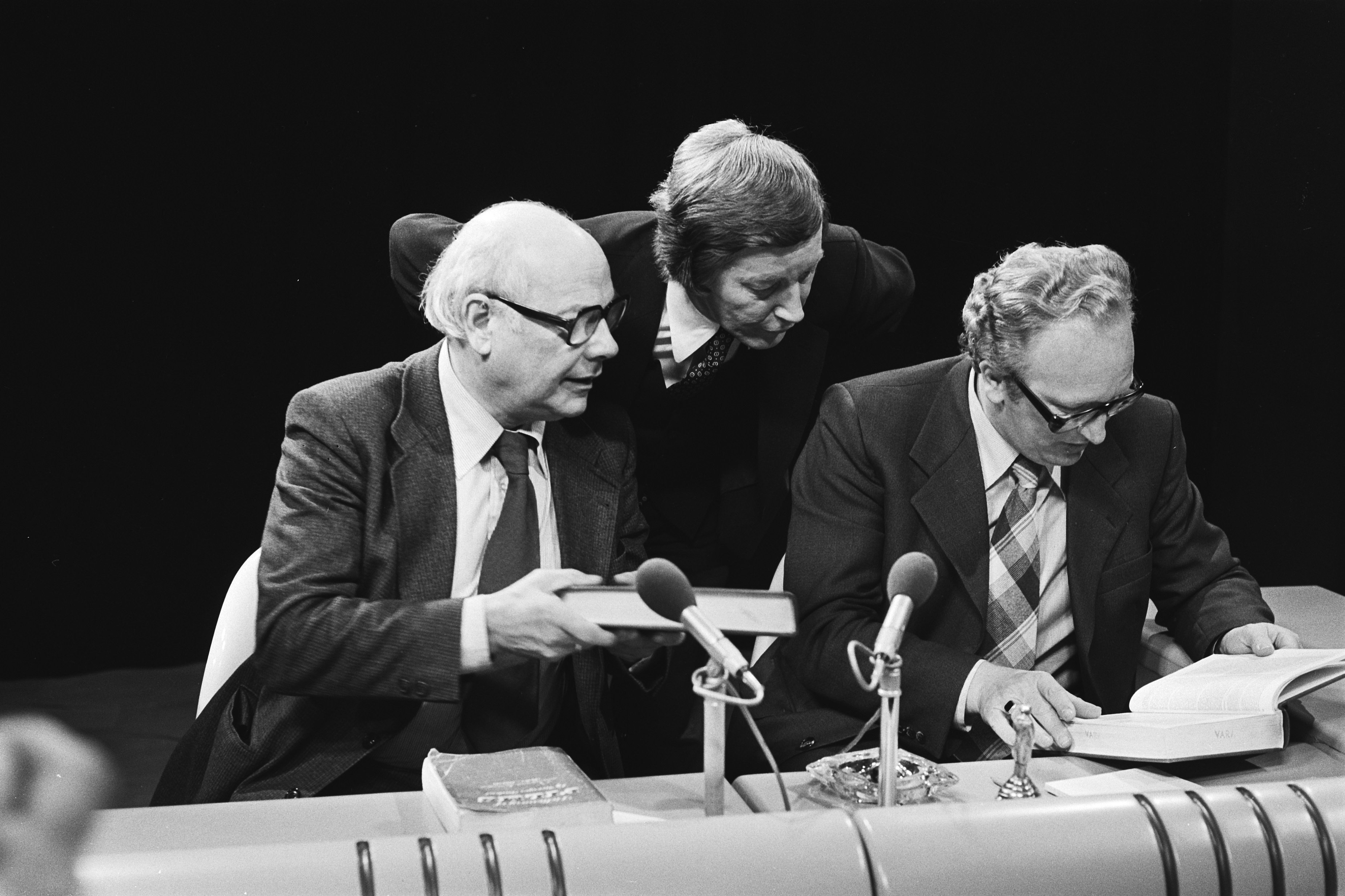 On the 1st of May the Dutch public channel “VARA” broadcasted the television show “Twee voor Twaalf” with the Dutch politicians Den Uyl, Van Kemenade, playing against Boersma and Van Houwelingen, quizmaster Koopman is standing in the middle.